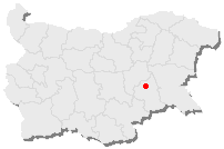 Map of Bulgaria, the red point is the position of Yambol.